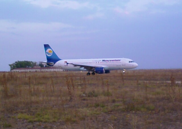 A320 of Nouvelair taxi in Valladolid Airport